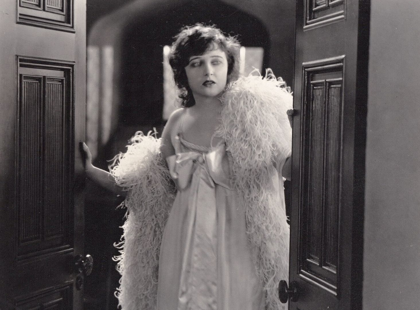 Still with Corinne Griffith in the film Six Days (1923).